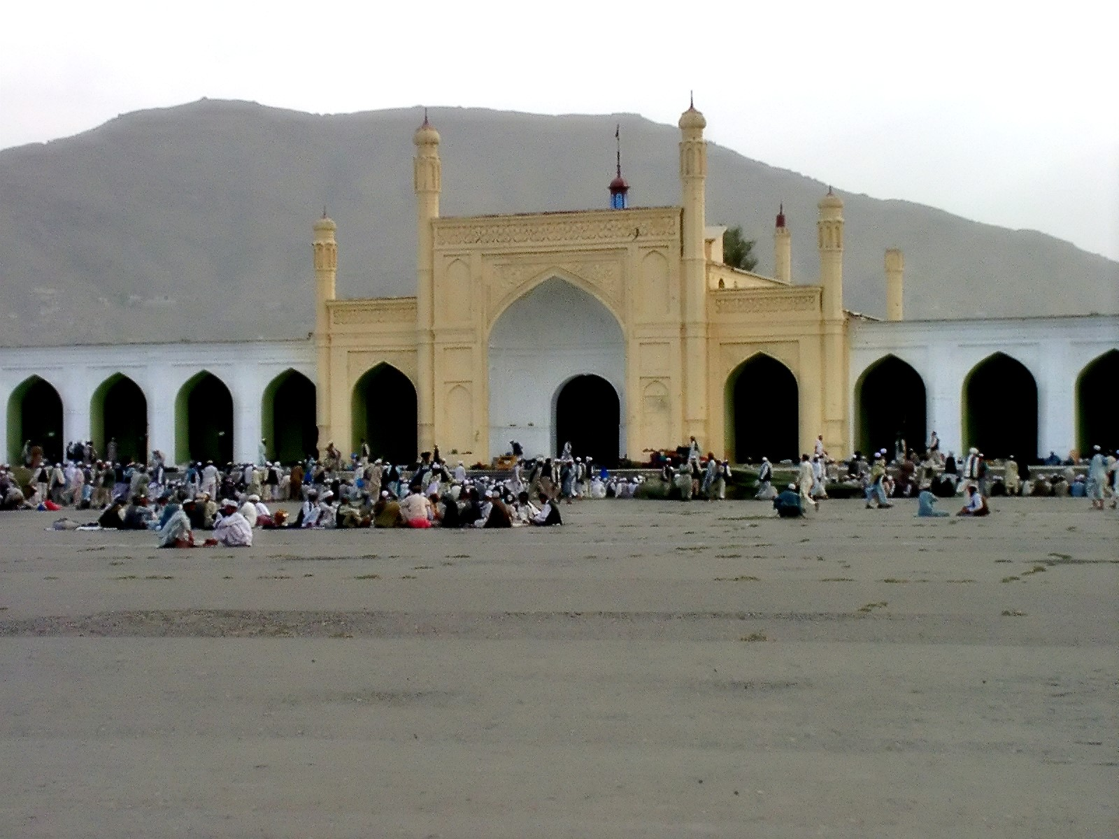 Id Gah Mosque in Kabul